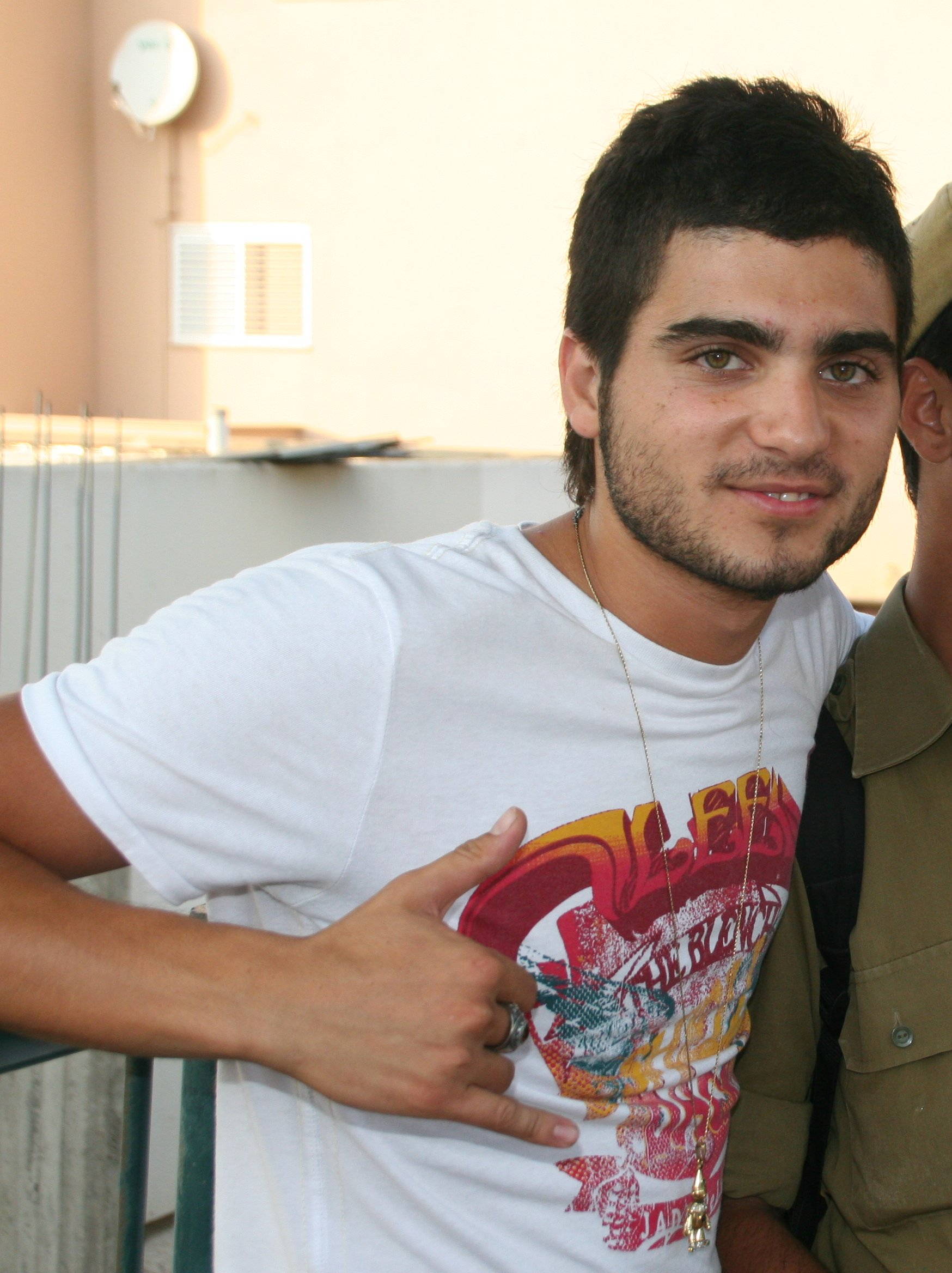 Israeli actor Oshri Cohen with the "Ha-Kochavim Shel Shlomi" DVD